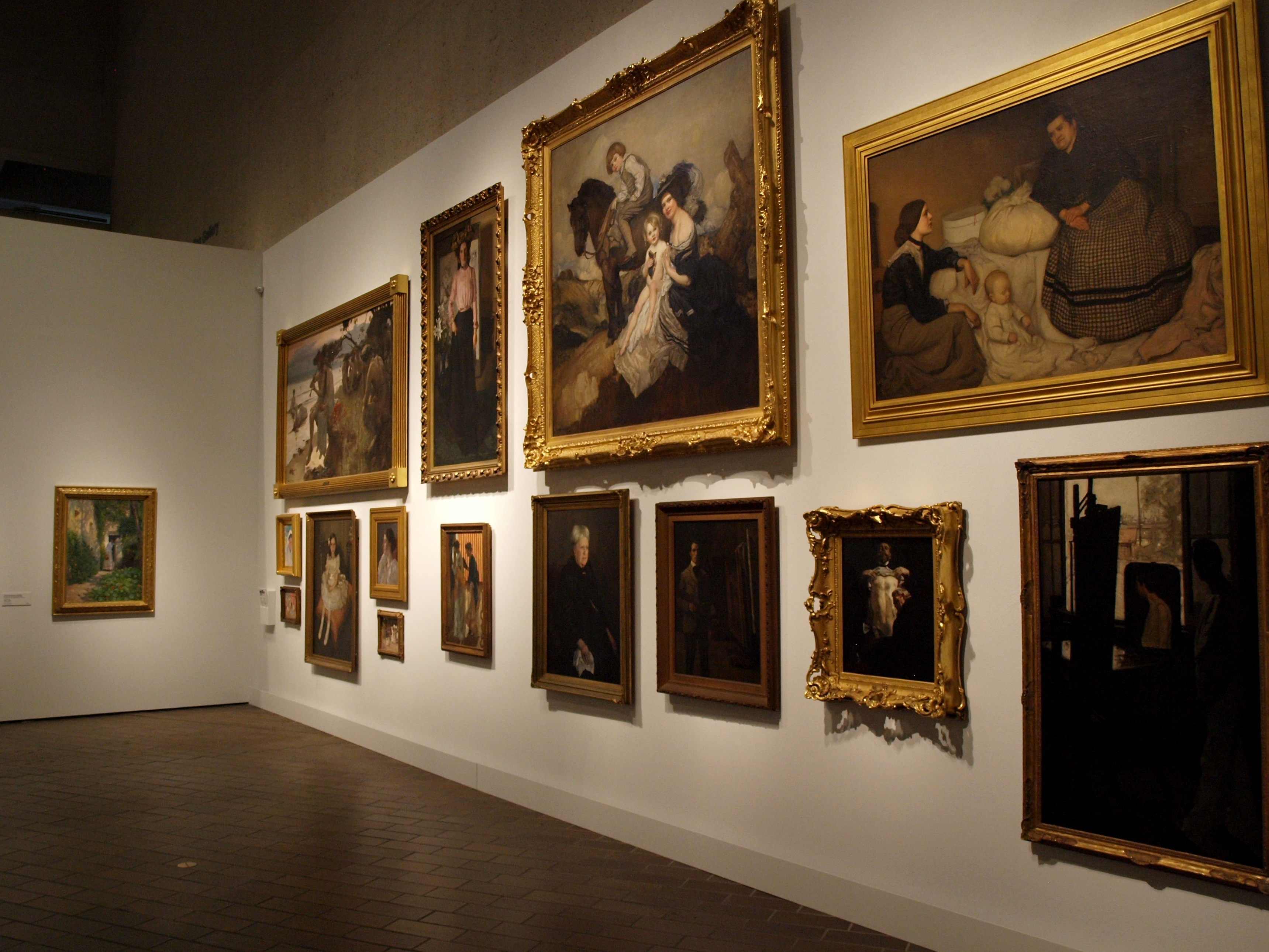 National Gallery of Australia (Interior)